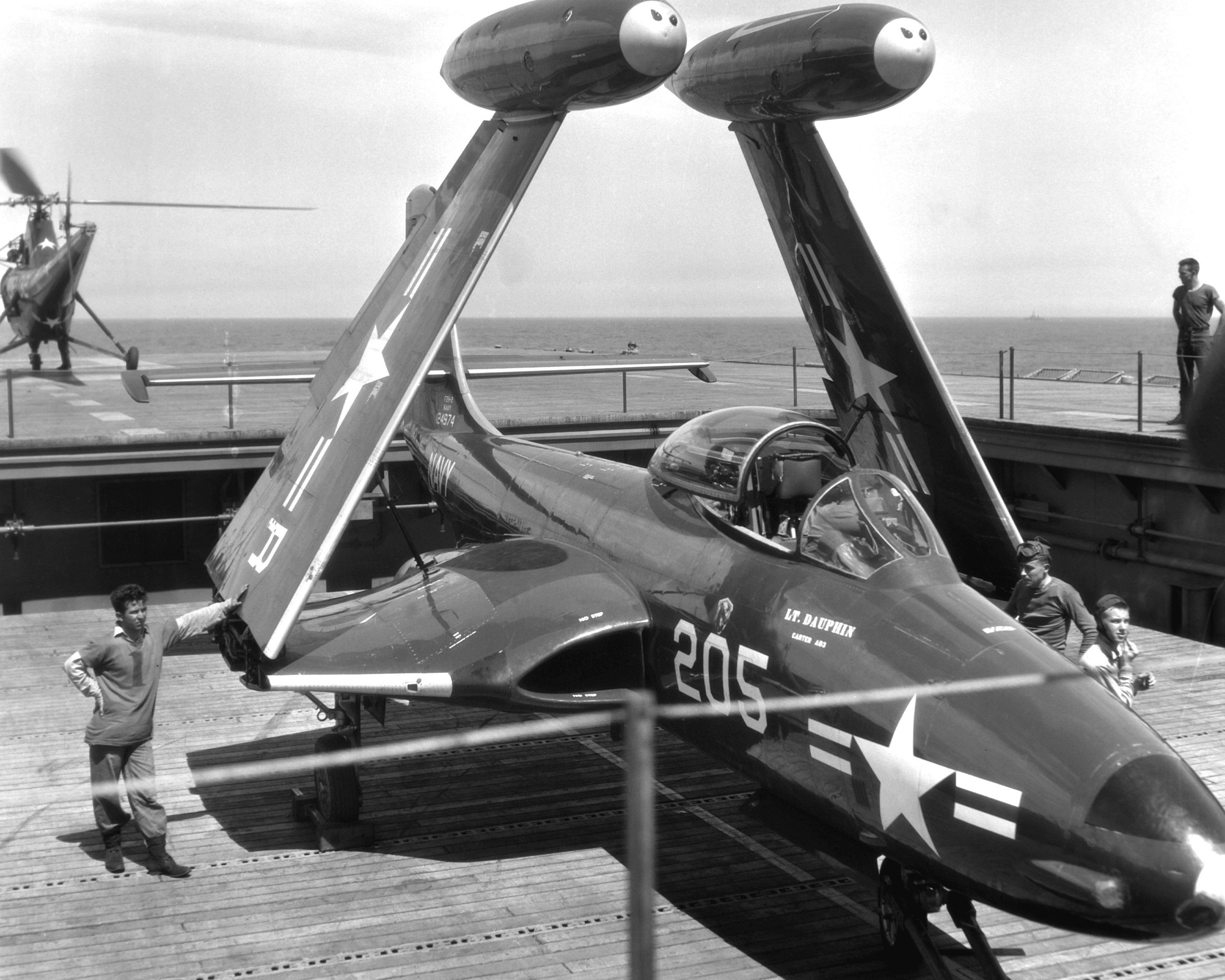 A McDonnell F2H-2 Banshee fighter (BuNo 124974) from fighter squadron VF-172 Night Owls, Carrier Air Group Five (CVG-5), being brought up to the flight deck aboard the U.S. aircraft carrier USS Essex (CV-9) on 25 August 1951. The Essex was deployed to Korea from 26 June 1951 to 25 March 1952. Note the names of the plane's pilot (Lt. Dauphin) and the plane captain (Carter AO3) painted below the cockpit. A Sikorsky HO3S-1 helicopter of helicopter utility squadron HU-1 Det. B Pacific Fleet Angels is visible in the background.